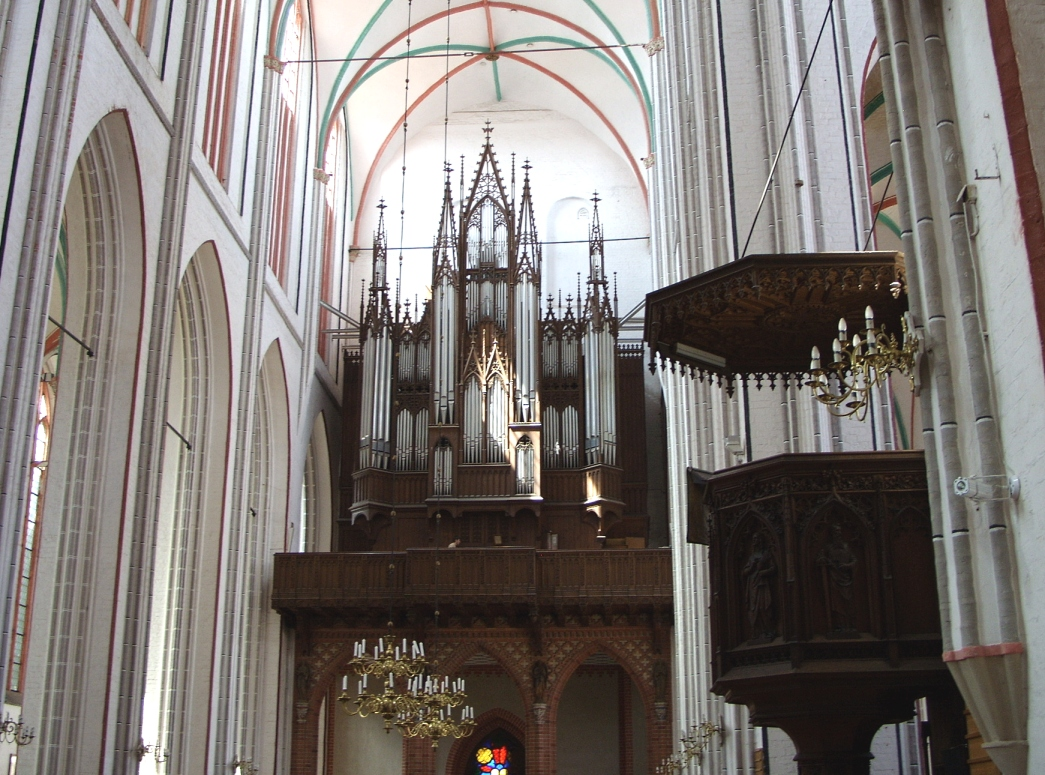 Pipe organ in the Schwerin Cathedral Schwerin, Germany